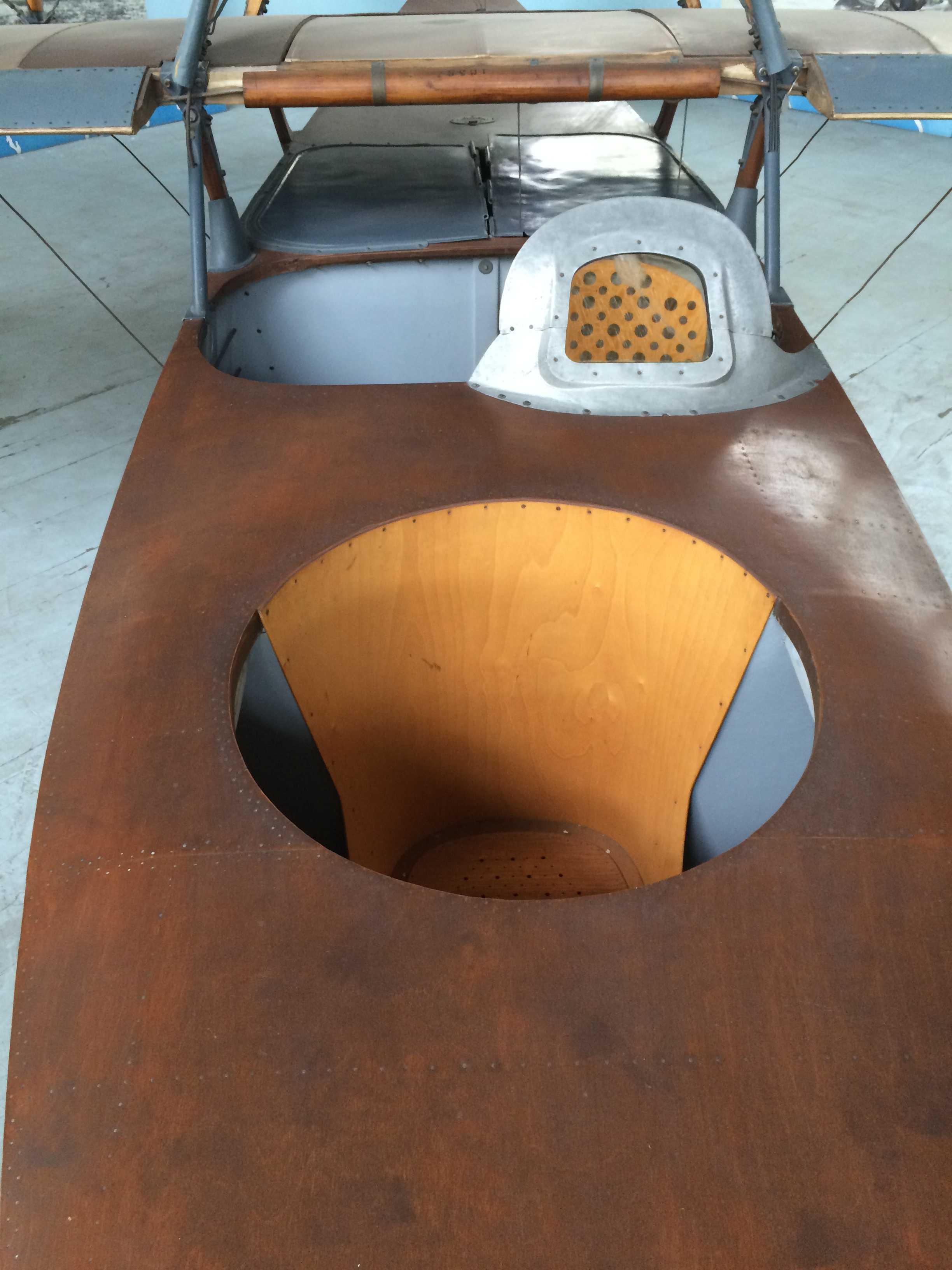 Pilot and passenger seats of a Schreck FBA H, a World War I flying boat of the Belgian armed forces. Royal Military Museum, Brussels. This is a file created at the museum: Royal Museum of the Armed Forces and of Military History in Brussels